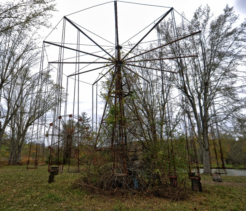 West Virginia's abandoned Lake Shawnee Amusement Park shut down back in 1966 and has laid in ruins ever since. Many believe Lake Shawnee to be horribly cursed. The park was built upon the site of a desecrated Native American burial ground, and was the location of a brutal massacre of settlers. An archaeological dig has revealed a Native American burial ground containing the bodies of 13 people, mostly children. In the 18th century, the area's first European settlers arrived, the Clay family. The settlers were attacked by Native Americans, two of their children died in the attack, and a third was later burnt at the stake. In the 1920s the land was purchased and transformed into an amusement park. Over the years, several tragic accidents happened at the park, including the death of a little girl on the mechanical swings and a drowning death in Lake Shawnee. The park was then closed. Some paranormal investigators have visited the site and claim to hear children laughing and the swings moving all by themselves. Because surely wind couldn't make swings move like that.